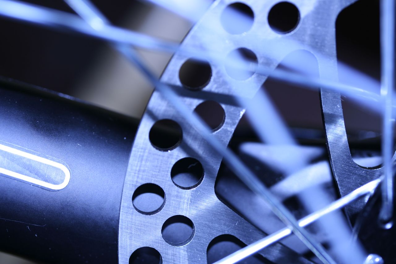 Disk Brakes